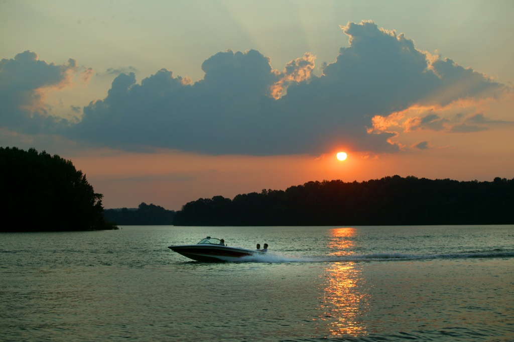 beautiful sun and boat at the lake